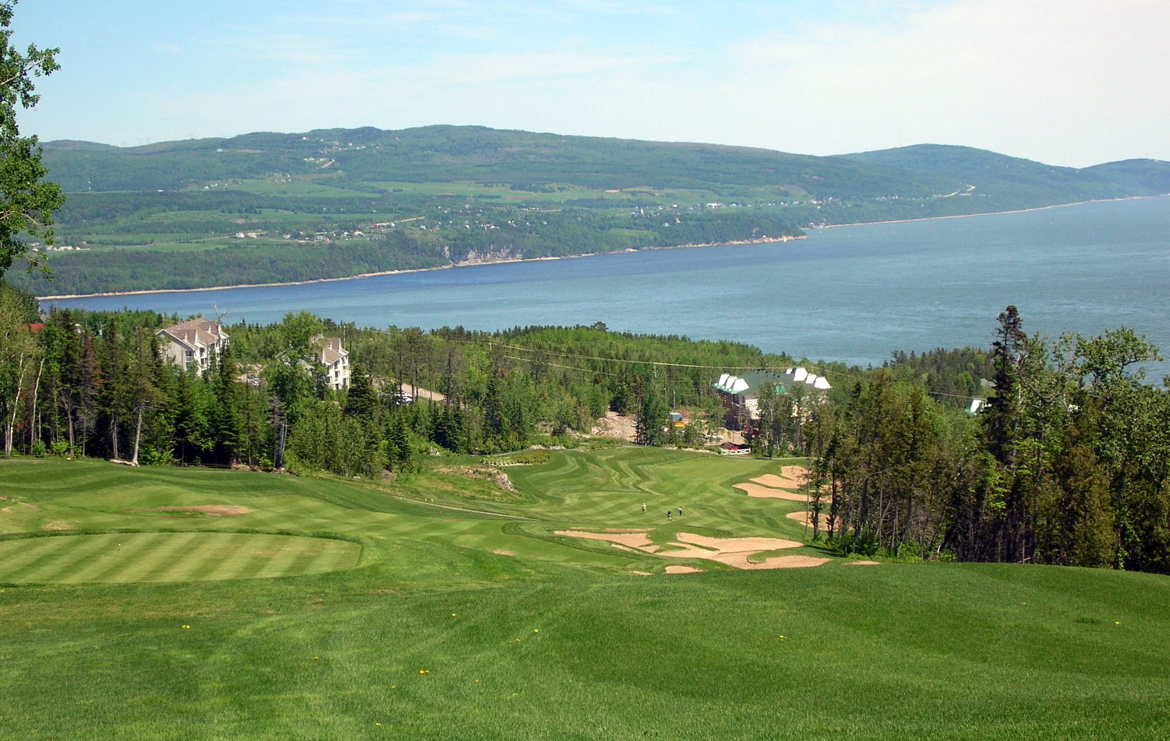 Hole #3, the Fairmont Le Manoir Richelieu Golf Club, with a view on Cap-a-l'Aigle, La Malbaie, province of Quebec, Canada